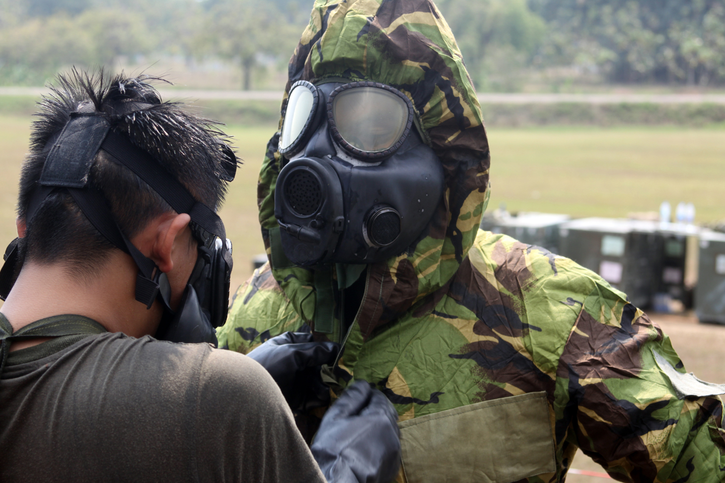 Two Royal Thai Marines help each other out of their Mission Oriented Protective Posture gear during Chemical, biological, radiological, and nuclear decontamination training, at Camp Samaesan, Kingdom of Thailand, Feb. 14, 2012. Marines and sailors from the 31st Marine Expeditionary Unit (MEU) also participated in the training, the training was part of the multi-lateral training exercise Cobra Gold 2012. Cobra Gold 2012 demonstrates the resolve of the U.S. and participating nations to increase interoperability & promote security and peace throughout the Asia-Pacific region. The 31st MEU is the U.S.'s expeditionary force in readiness in the region. (U.S. Marine Corps photo by LCpl Patrick J. McMahon/Released)